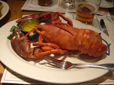 Lobster in Legal Sea Foods, Meal in Boston, United States